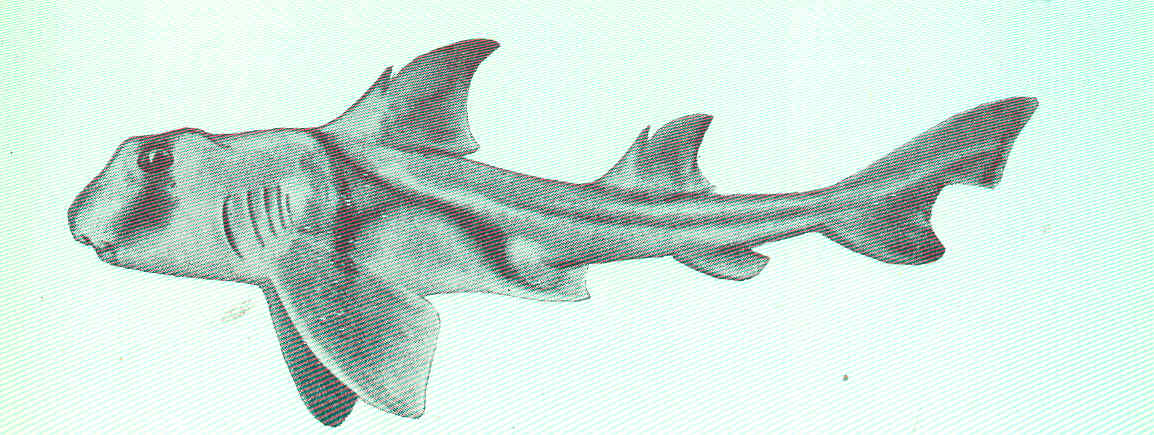 Heterodontus philippi (Syn. Heterodontus portusjacksoni for FishBase)